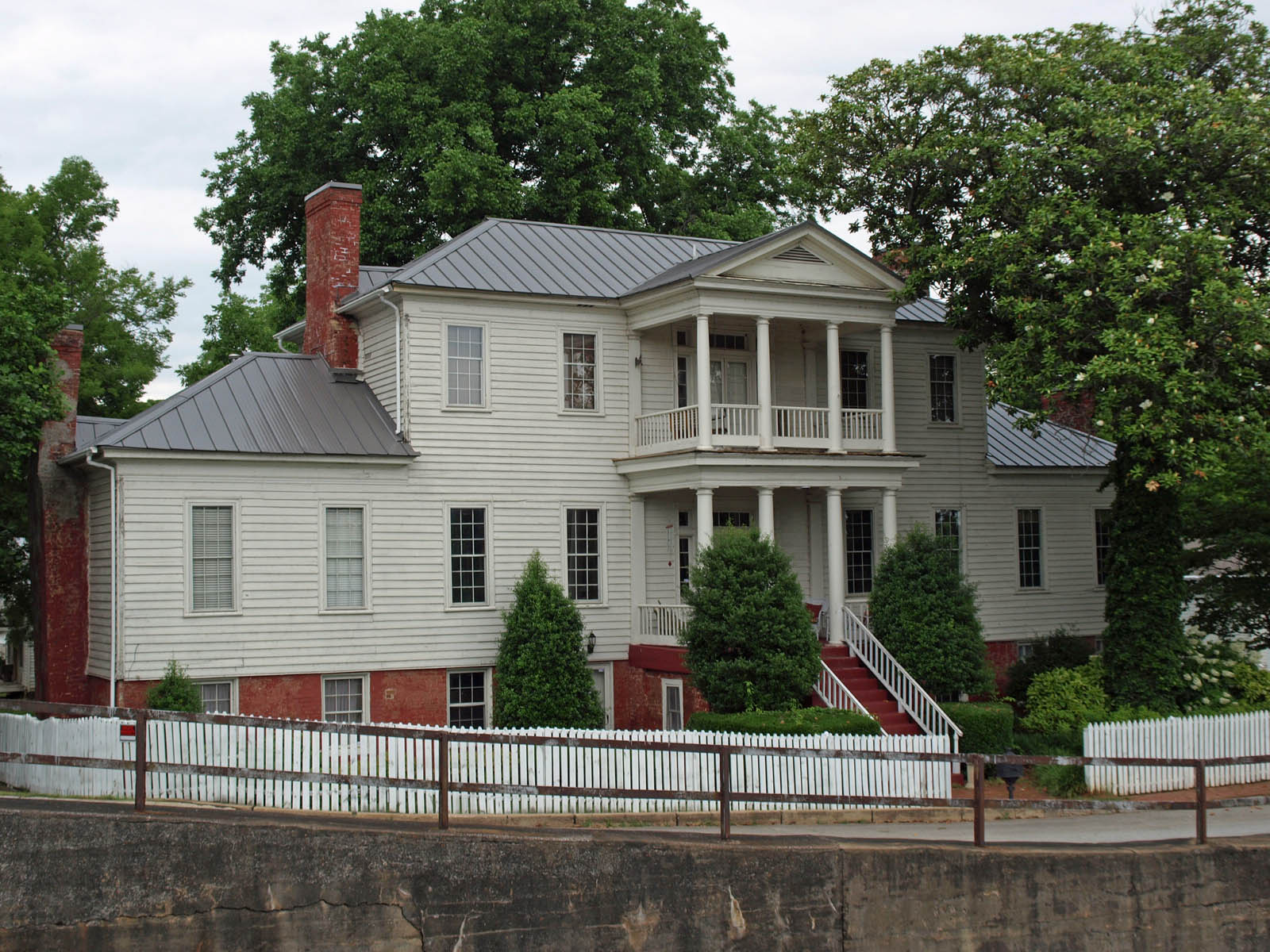 The Dancy-Polk House in Decatur, Alabama, listed on the National Register of Historic Places